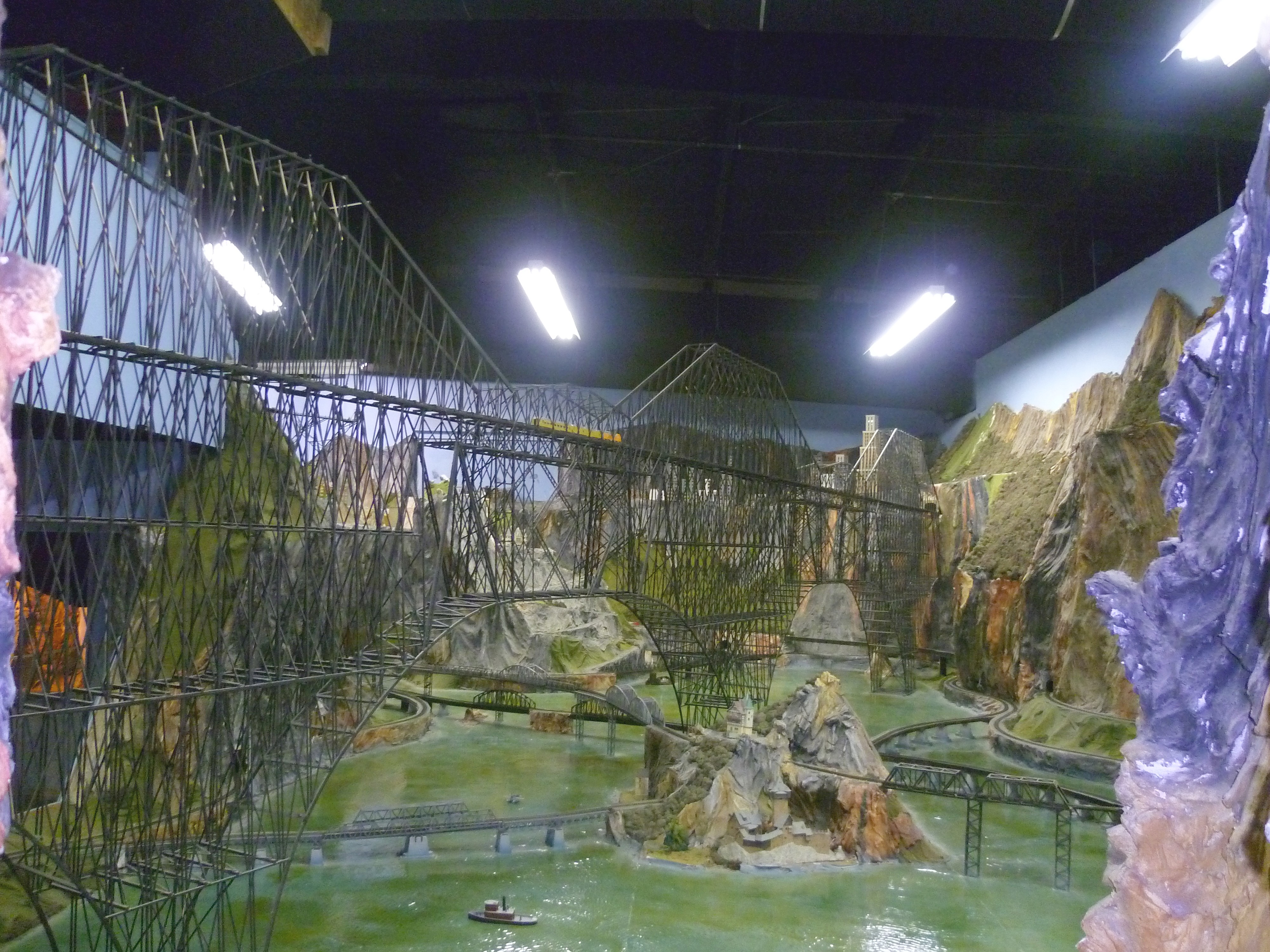 Model railroad exhibition 'Northlandz'